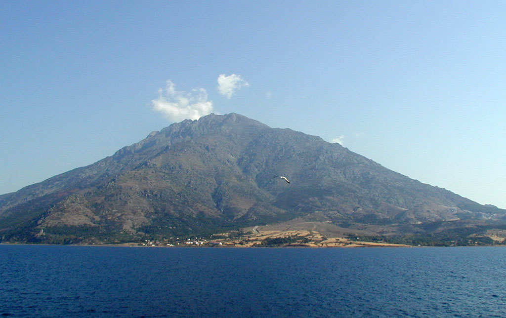 Samothraki island. Photograph taken by Marsyas 09:42, 10 Apr 2005 (UTC).